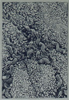 Helicobacter pylori bacteria